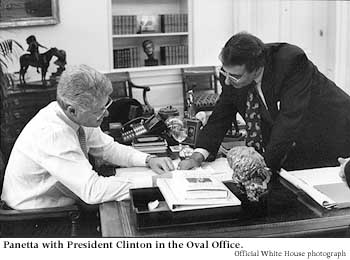 Official White House photograph, found on